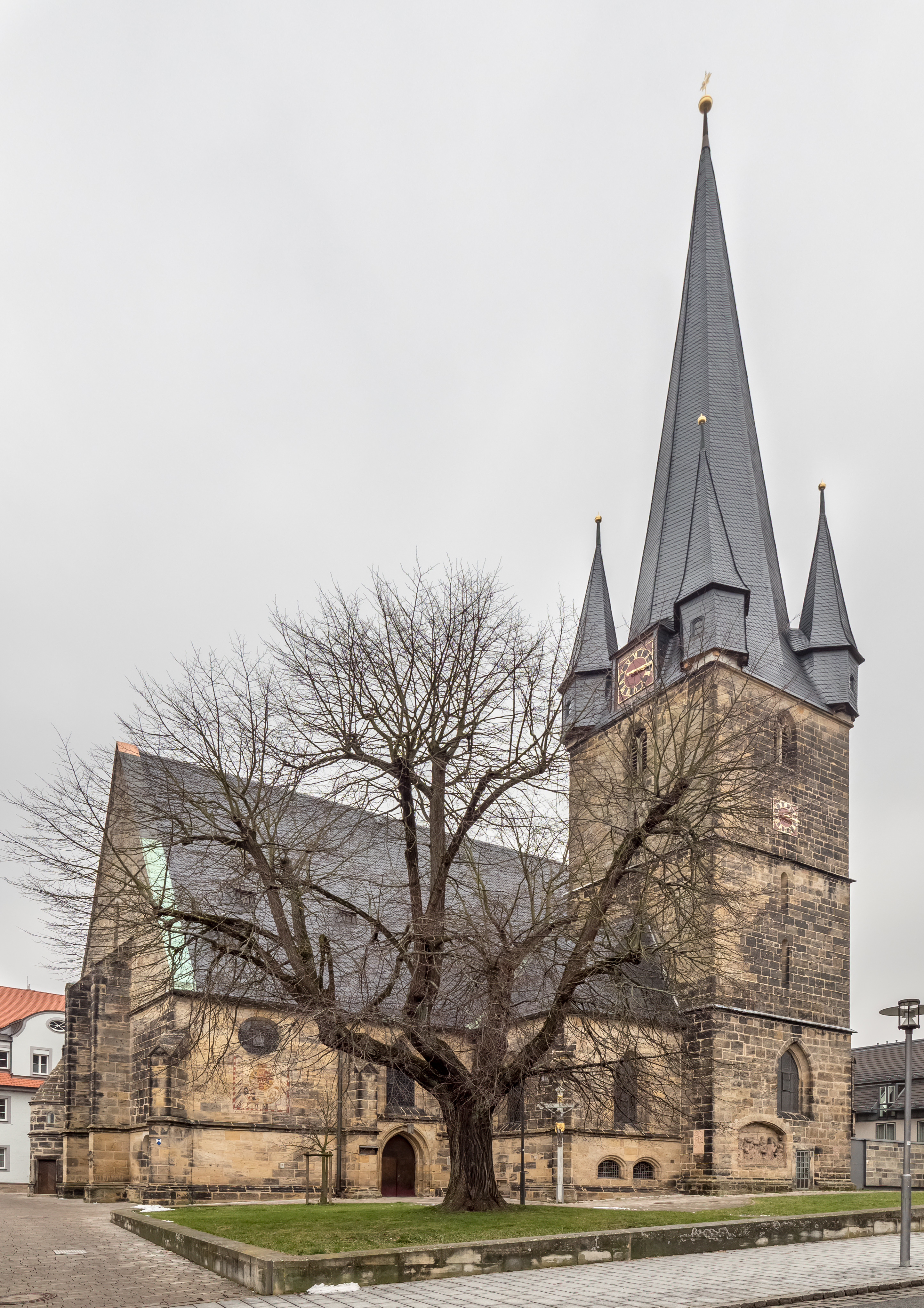 Catholic parish church Assumption of the Virgin Mary in Lichtenfels